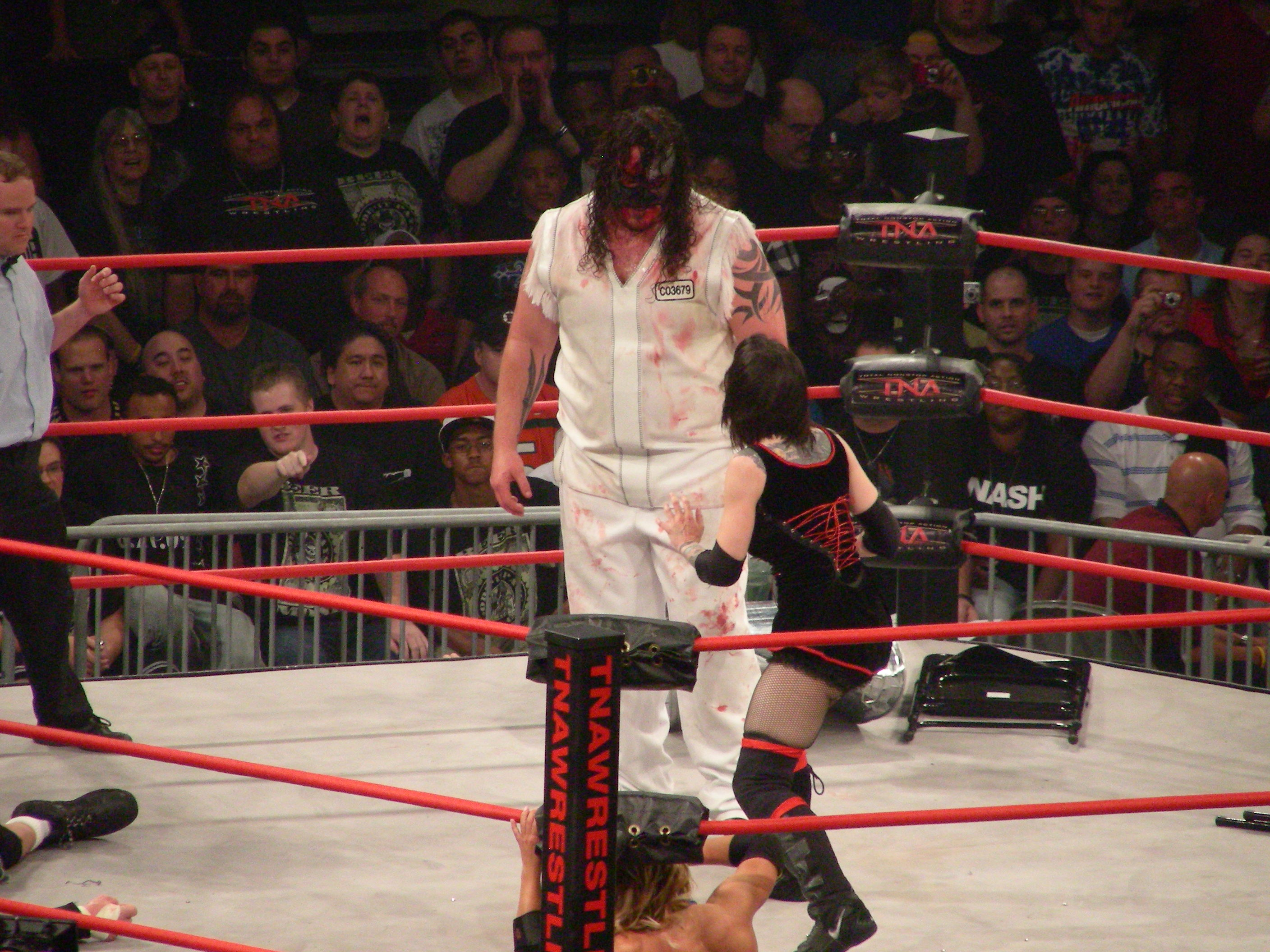 Abyss starring down Daffney... again!